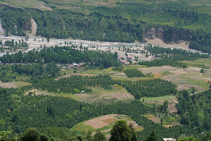 Captured on 19/5/06 around babeli, near Kullu during Saurkundi Pass Trek in Kullu District of Himachal Pradesh, India.